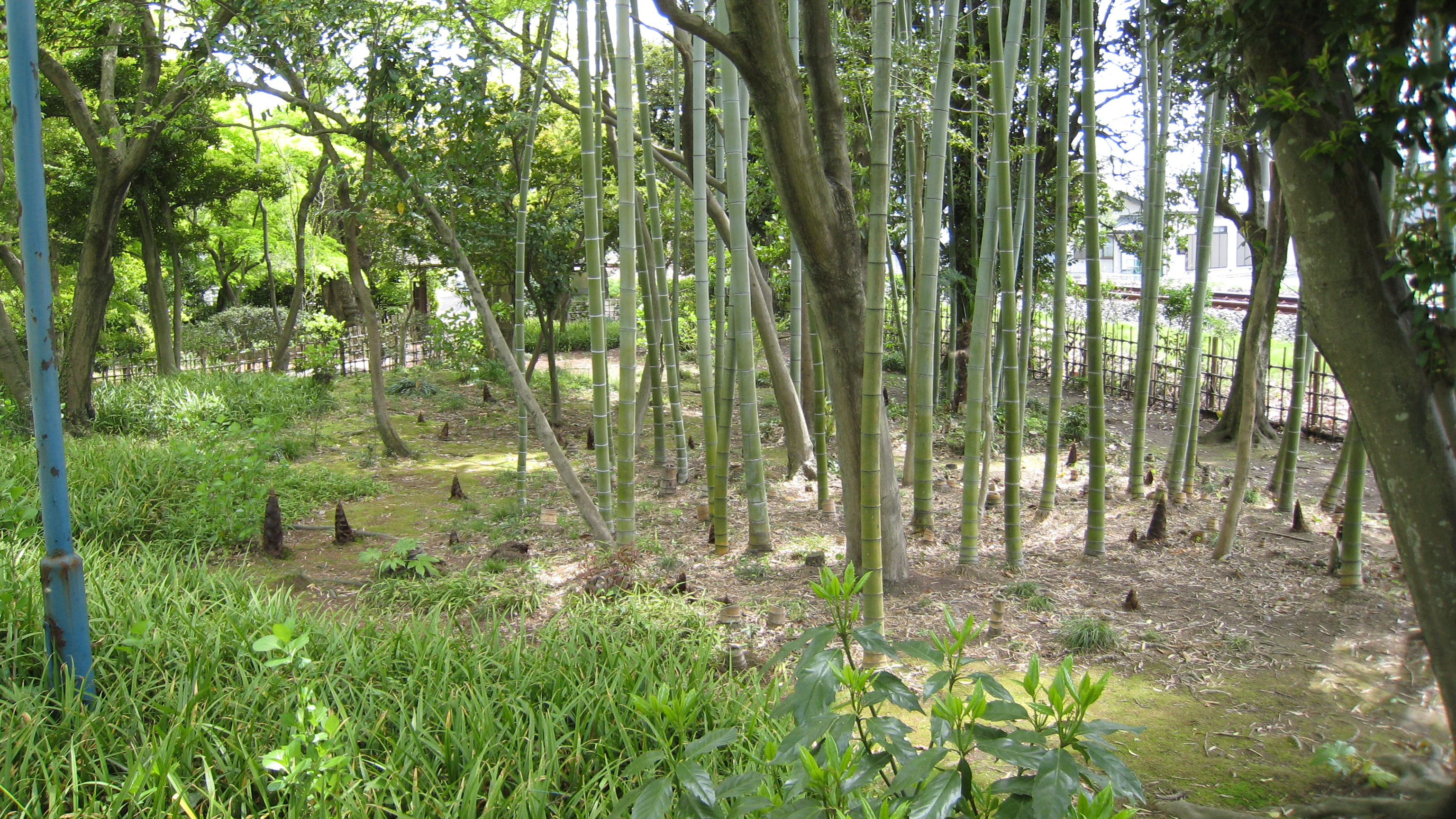 Takenoko(Bamboo shoot) at the garden of Soun Art Museum in Ashikaga,Tochigi Prefecture,Japan